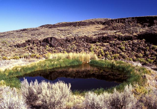 Lava flows of West Dome, one the structural highpoints of Diamond Craters, rise NE of lake-filled Malheur Maar. The shallow 2-m-deep lake occupies one of many maars (the rest of which are dry) of the Diamond Craters volcanic field. Southeastern Oregon, USA.